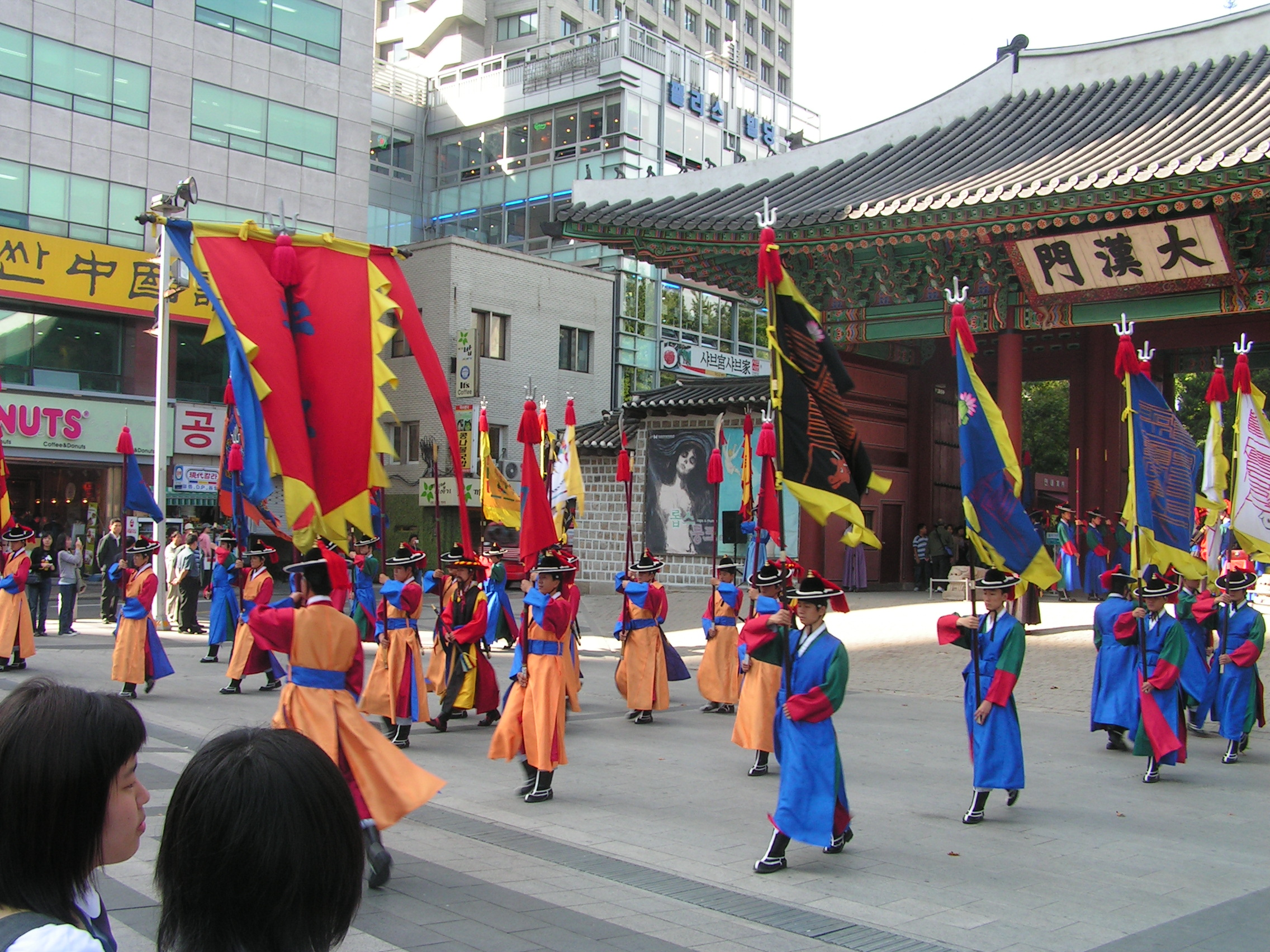 Royal Guard Changing Ceremony at Royal Palace (Deoksugung), Seoul, South Korea. Photographed on 13 October 2006.